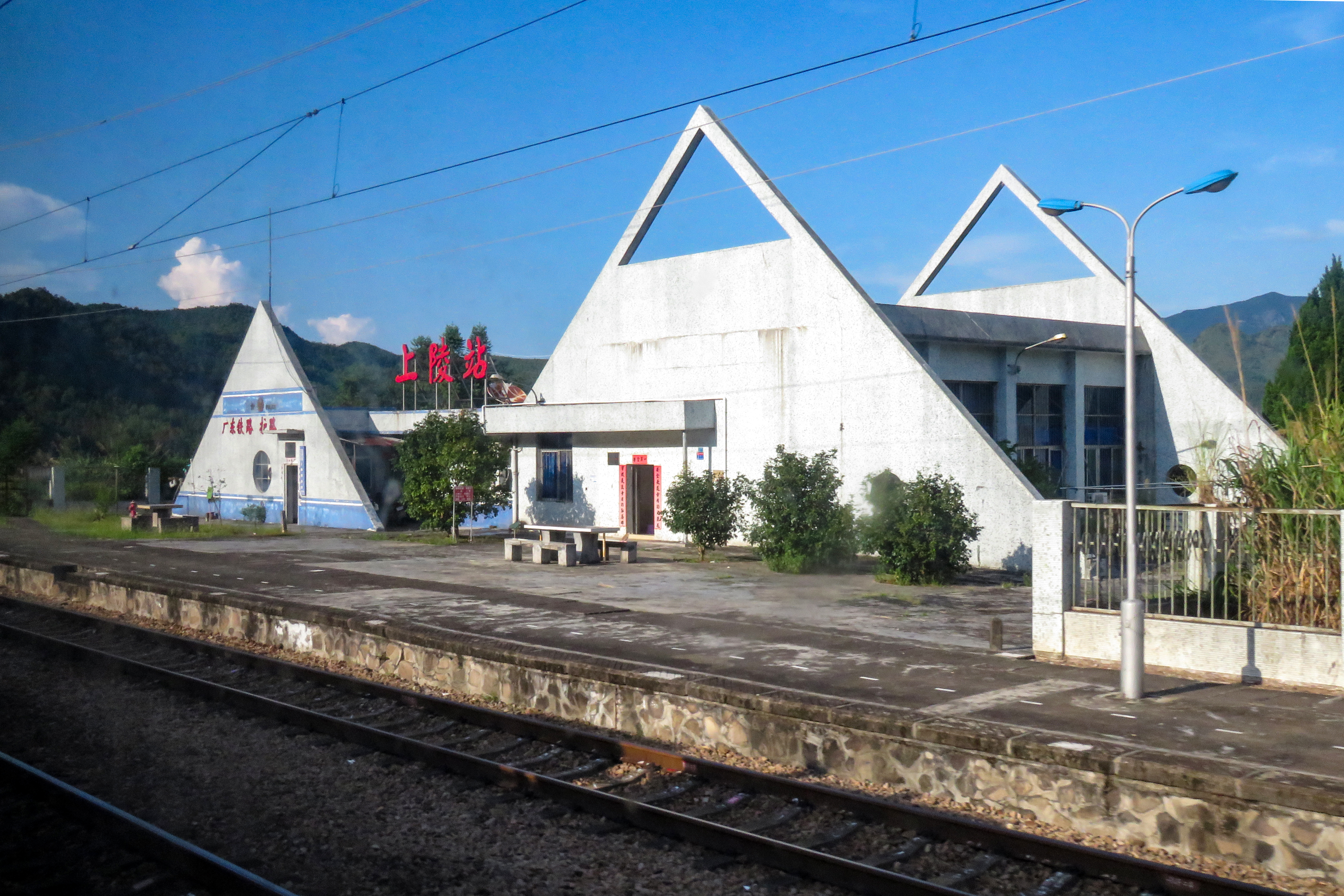 Didn't find the border sign.